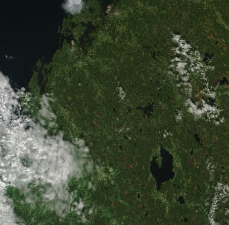 Satellite picture of lake Lappajärvi, Finland. The Southern part of the lake is an ancient meteorite crater.